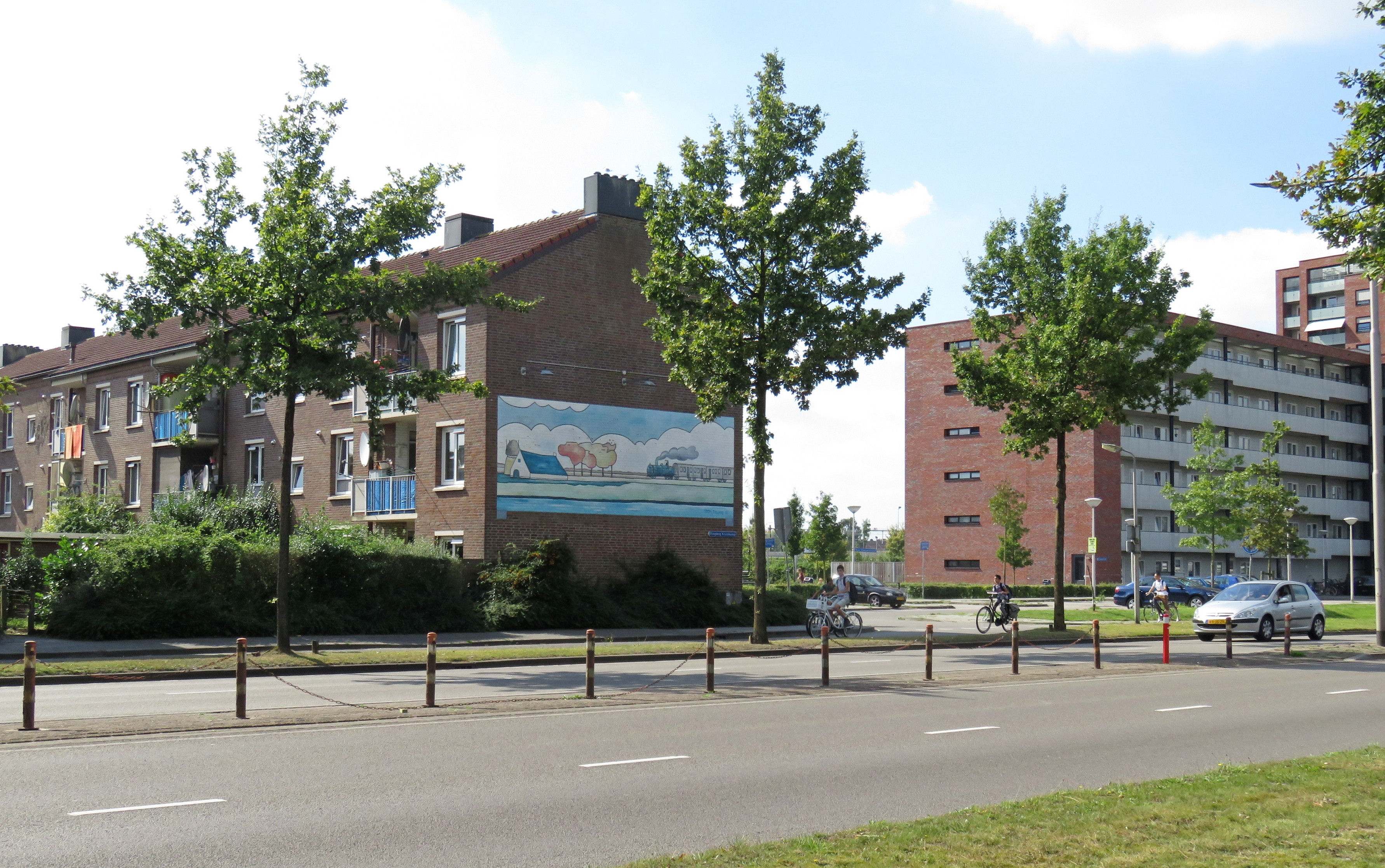 View on quarter 'De Kruiskamp' in Amersfoort(Nl), seen from 'Ringweg De Kruiskamp'. On the wall work of painter ToonTieland